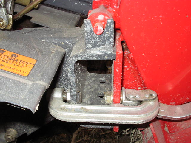 A hitch, connecting main body and rotally.